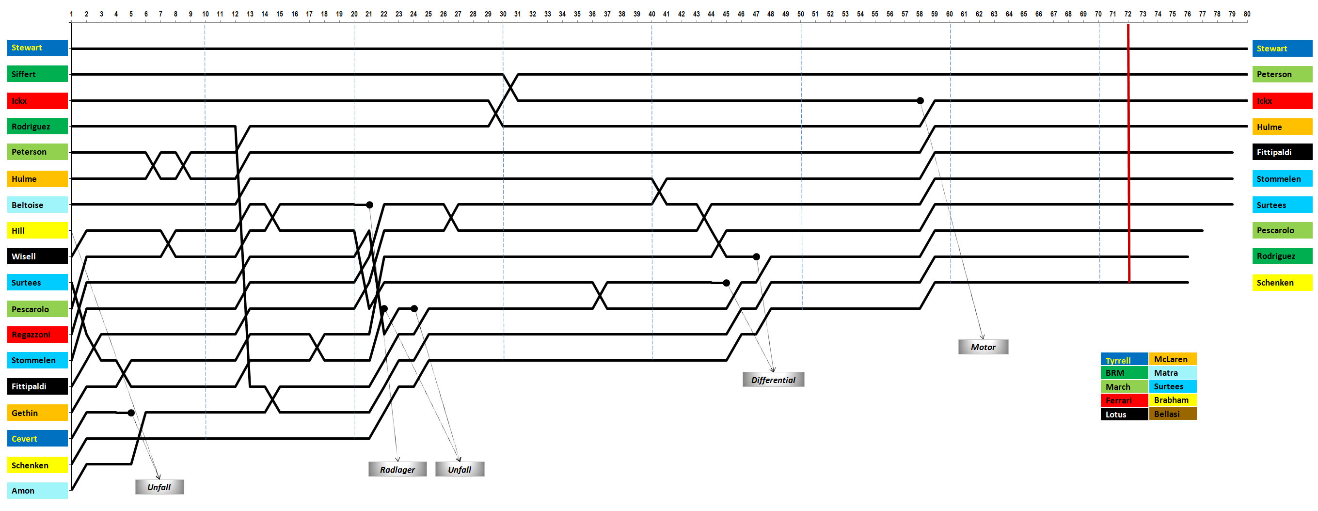 Round Table Monaco Grand Prix 1971